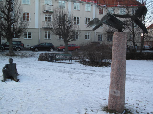 Mannen och trädet av Britt-Marie Jern från 1991 på Viloplatsen i Bagaregården.